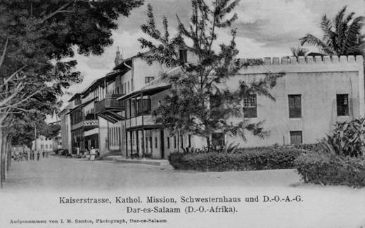 Kaiserstrasse, Dar-es-Salaam, German East Africa, c1905. Photograph of a postcard published by Santos of Dar-es-Salaam, c1905.